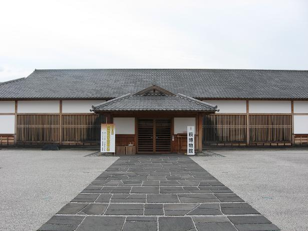 Hagi Museum. Museum in Yamaguchi,Japan., Hagi.